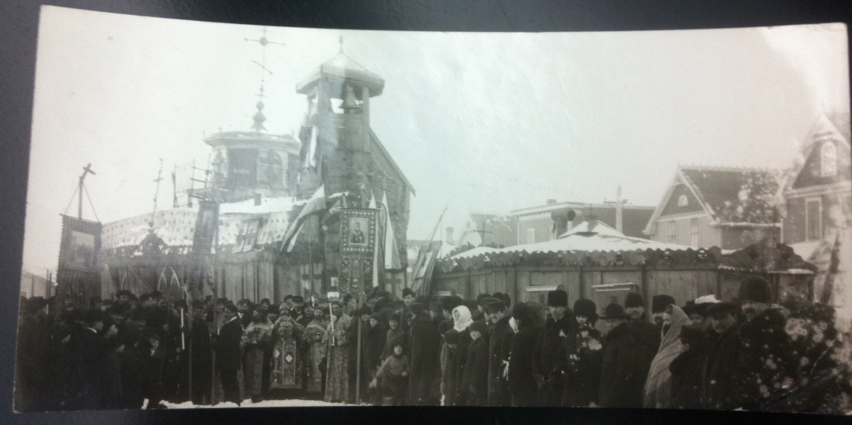 Cathedral built from scrap Winnipeg